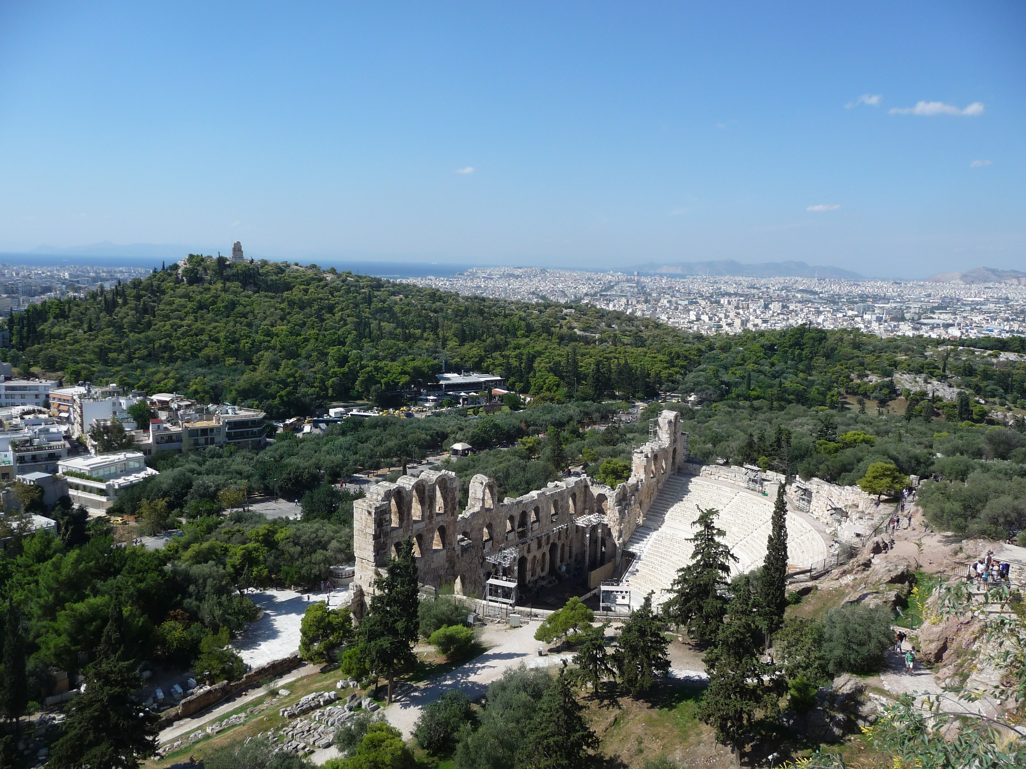 Athen – Philopapposdenkmal und Odeon Herodes Atticus